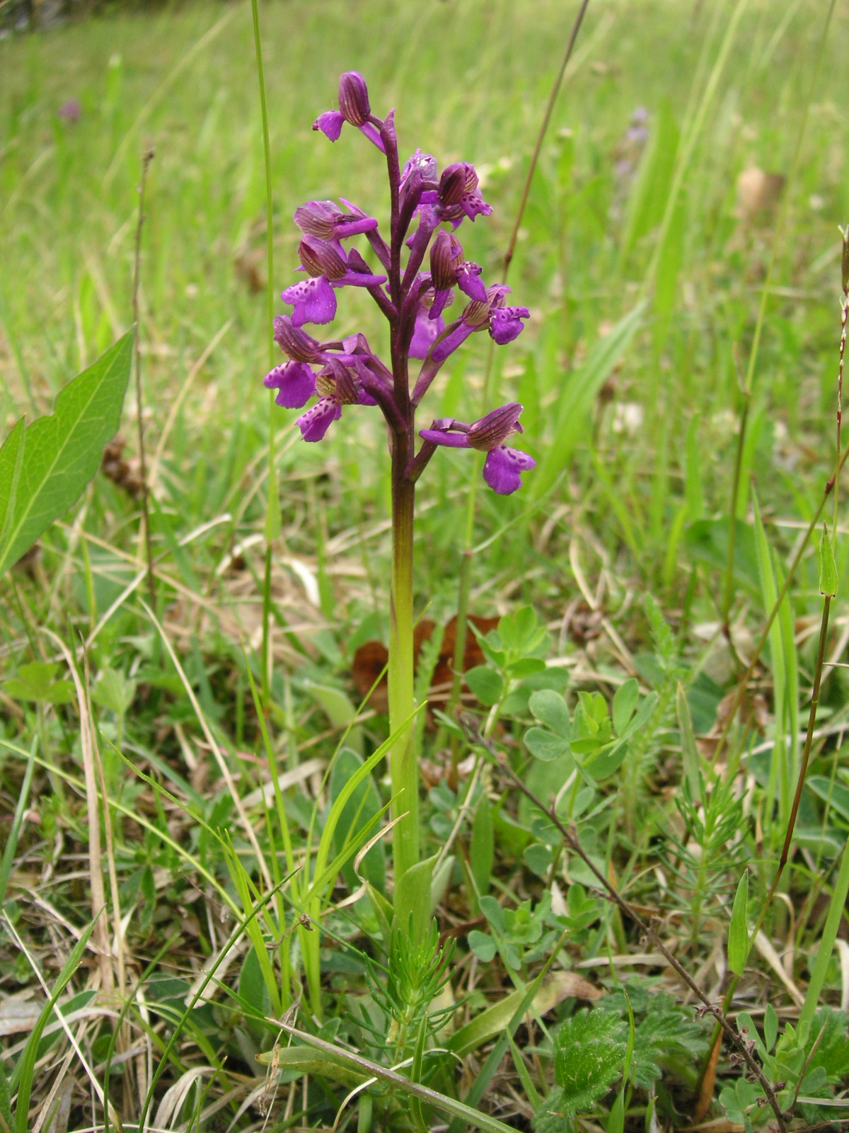 Green-winged Orchid (Orchis morio)